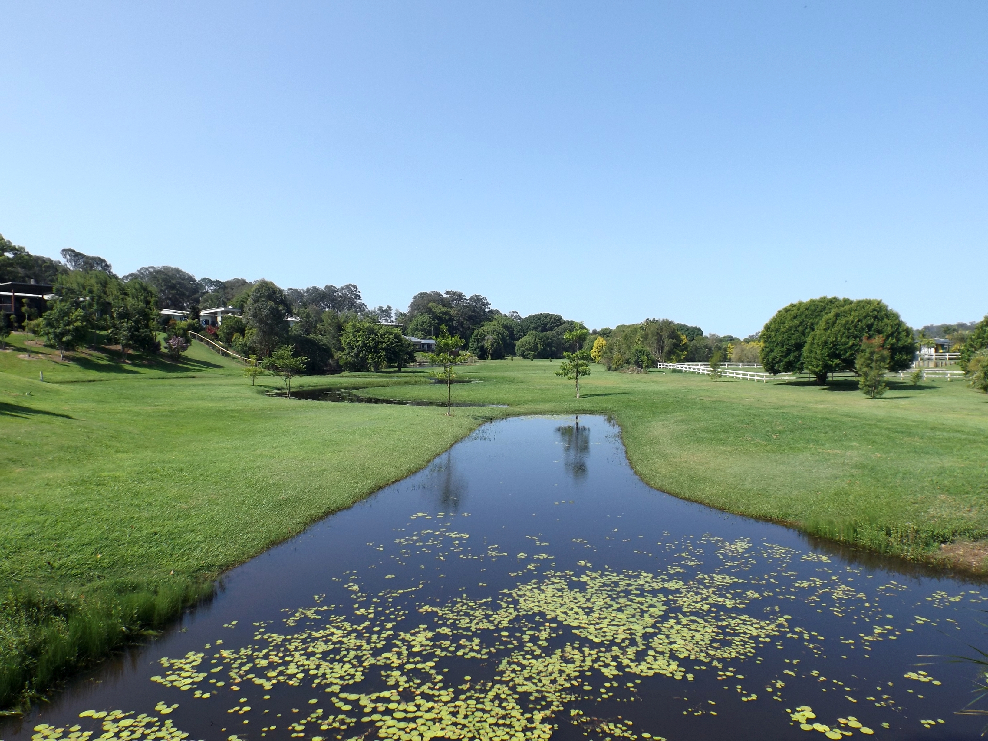 Photo of a waterway near Tobin Way in Tallebudgera, Gold Coast City, Queensland, Australia.